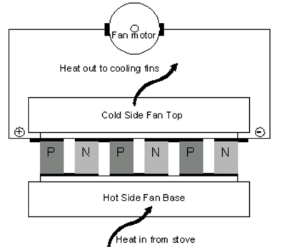 fan scheme